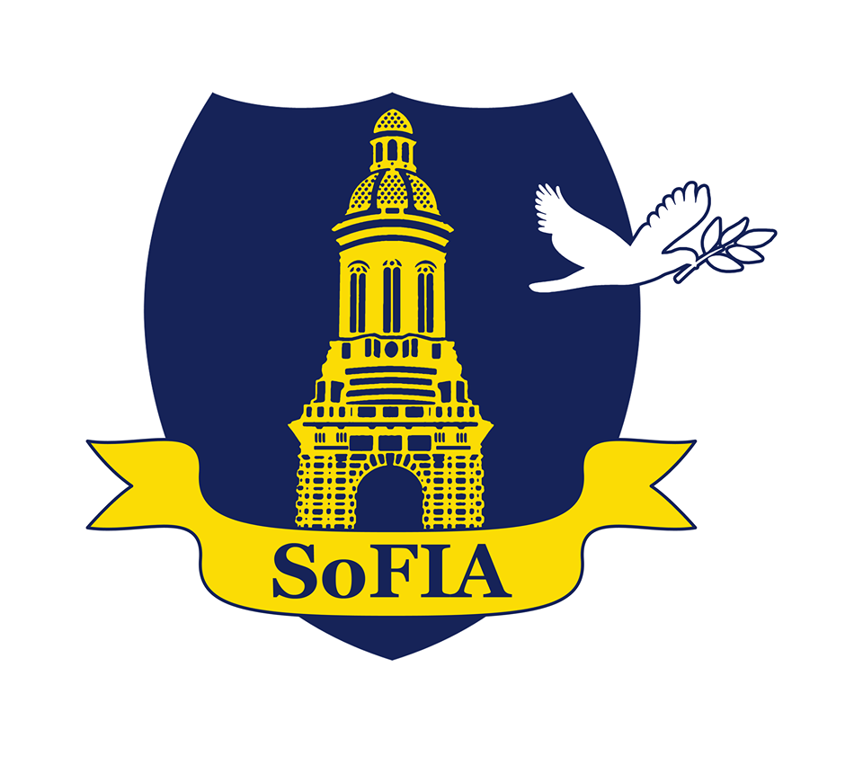 Logo of the Society For International Affairs (SoFIA) in 2014